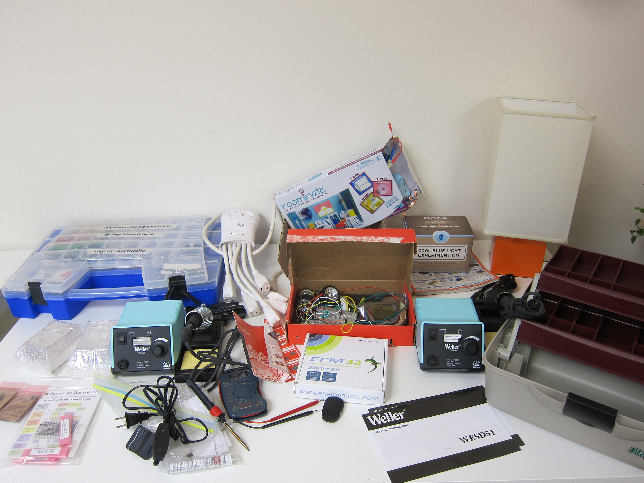 Small electronics tools and supplies arranged on a table against a white wall. Photo taken at Double Union, a hackerspace in San Francisco.